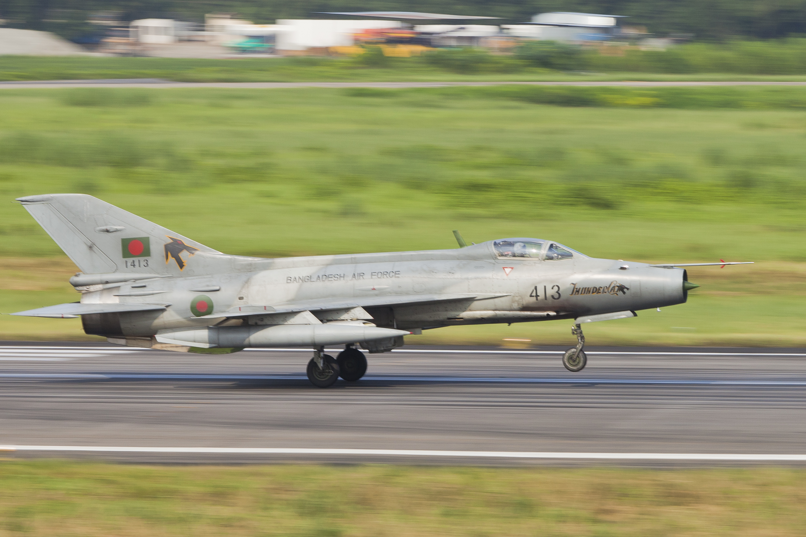 Bangladesh Air Force F-7 Air Guard Landing